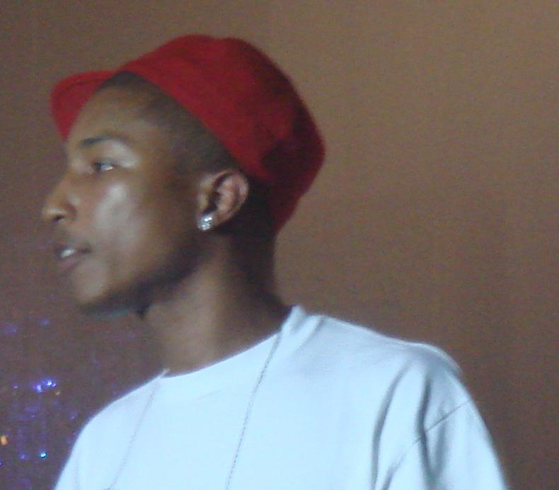 Pharrell Williams performing at the Nokia Theater in Times Square (cropped)